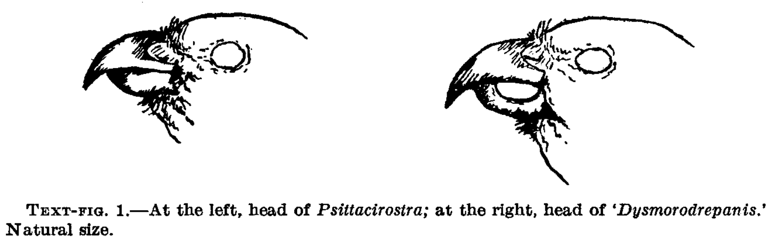 Comparison between the heads of Psittacirostra and Dysmorodrepanis.